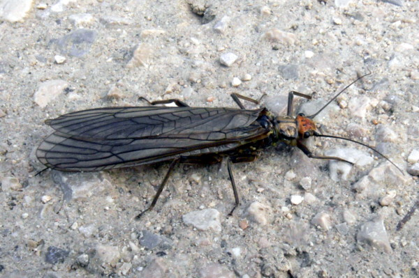 Picture of a member of the ordo Plecoptera